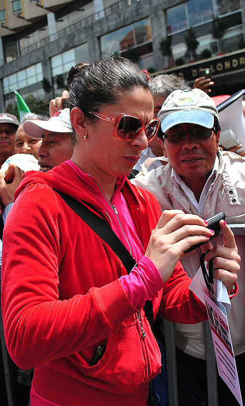 The former sprinter and senator by Chihuaua at the end of the "March-rally in defense of oil" in the Columbus Monument in Mexico City.